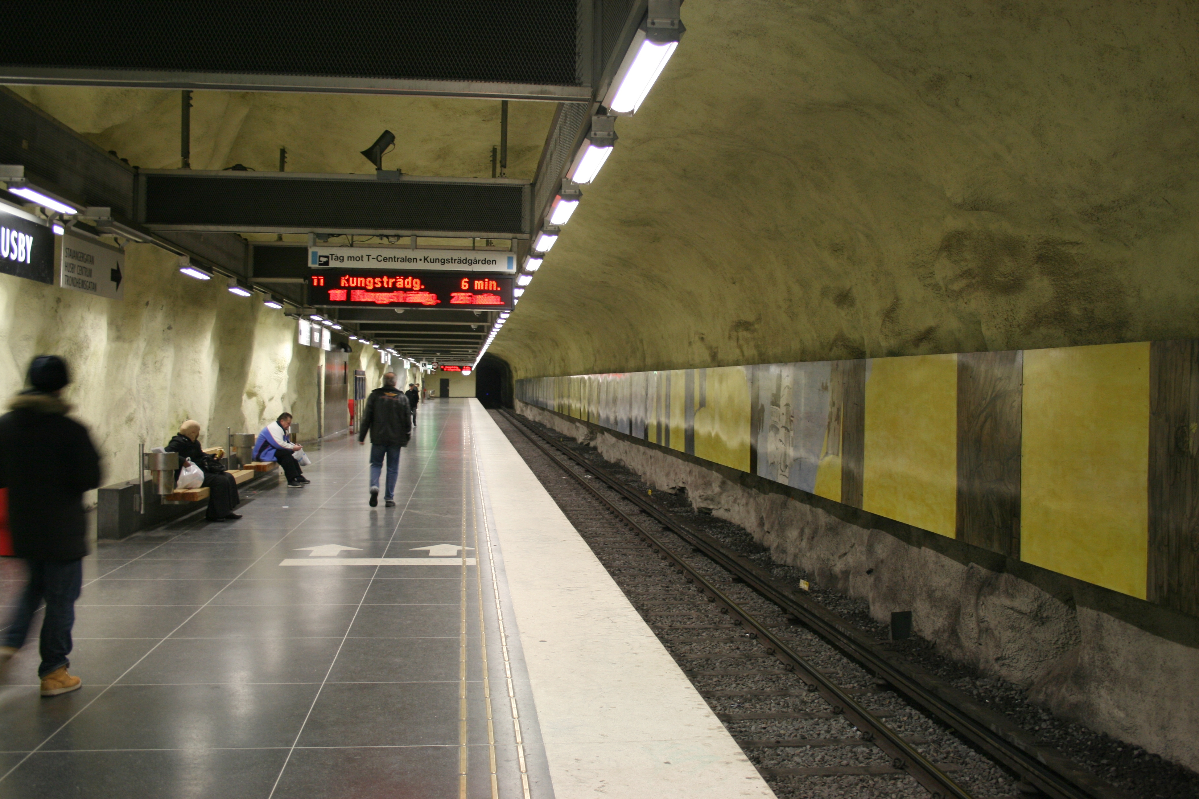 Husby metro station, Stockholm, Sweden